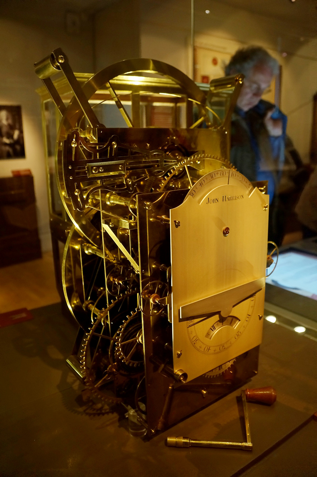 John Harrison's marine timekeepers H1, H2, H3 and H4 are the most important ever made. We saw them on display at the Royal Observatory Greenwich, in the Time galleries. The clocks are extraordinarily beautiful objects of themselves, as well as being revolutionary in their ability to allow ships to determine their longitude at sea. This development drastically reduced the risk of ships and their crews, along with their precious cargoes, being lost at sea. Read more at